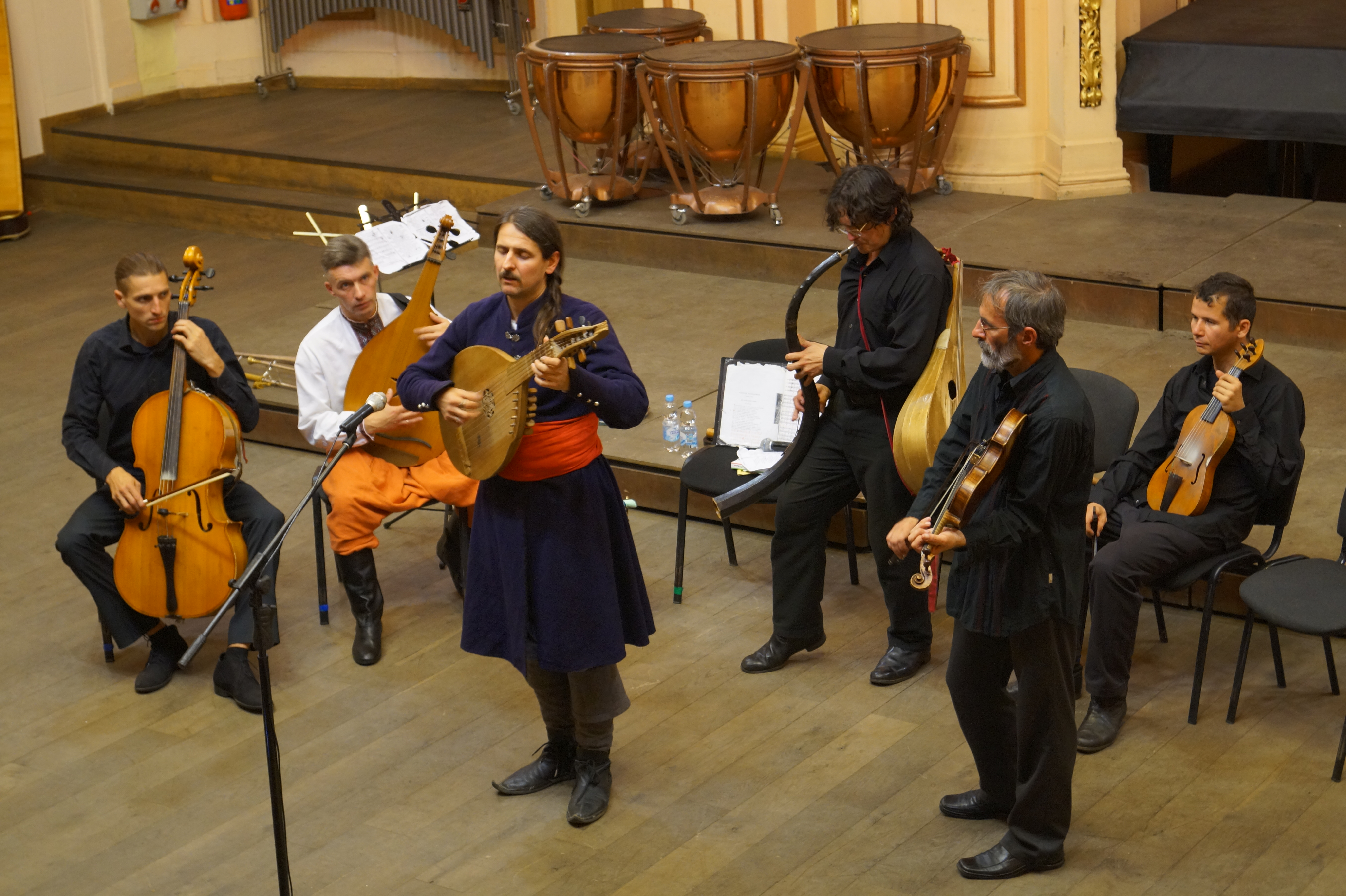 Choreia Kozatska performs in Lviv Philharmonic Concert Hall on September 12th 2015